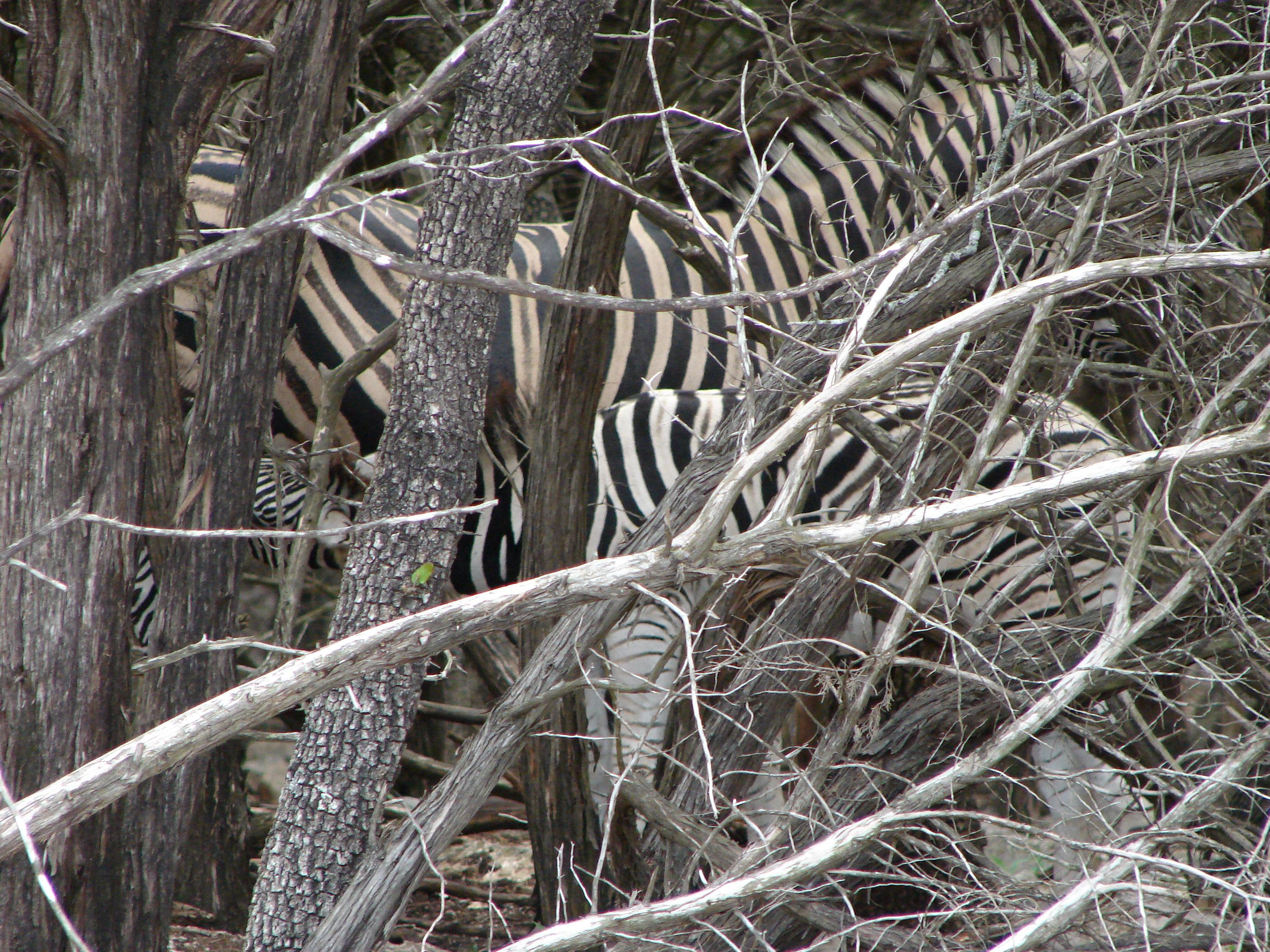 A zebra mother nursing her young among deadwood